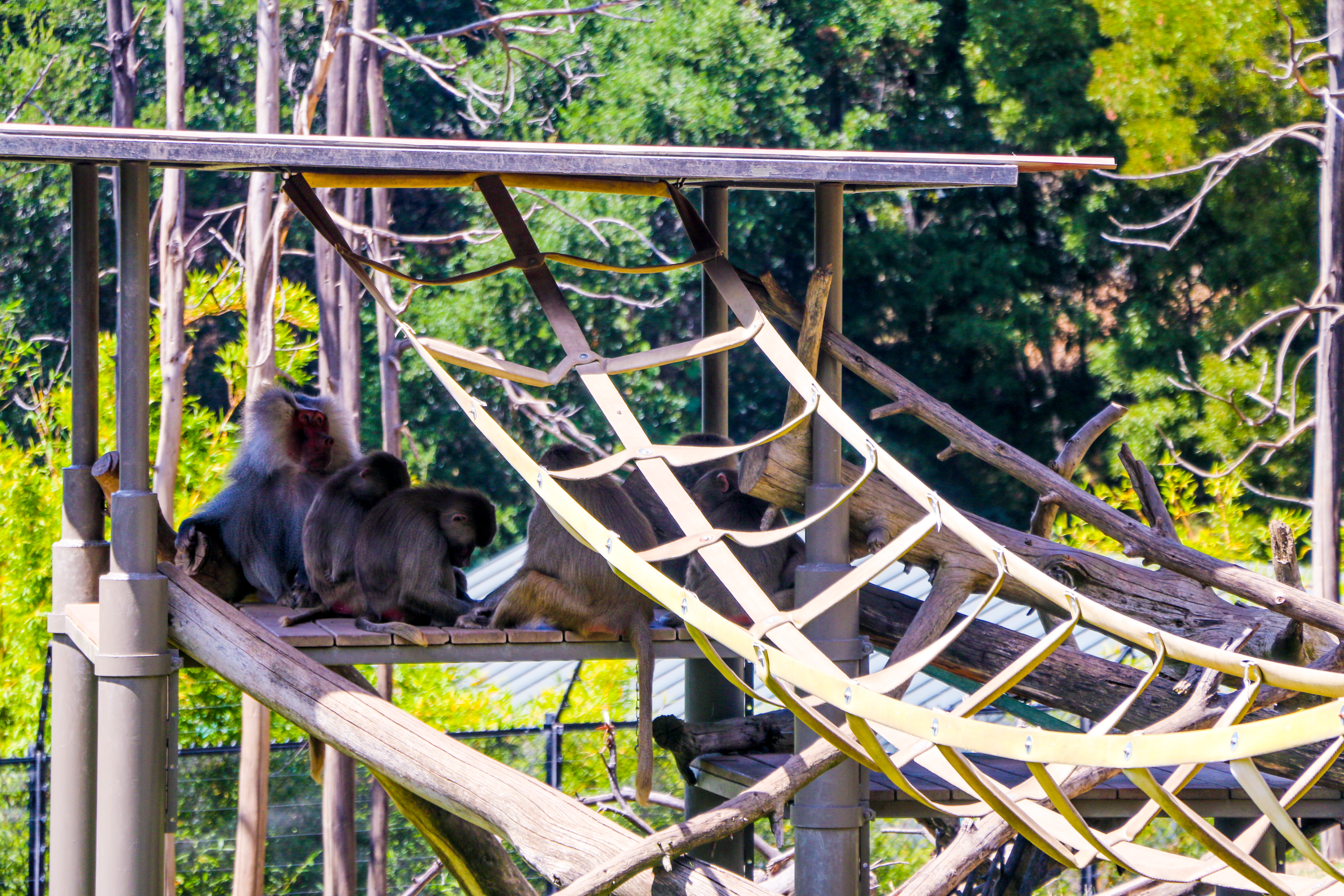 Baboons at the Oakland Zoo enjoy fire hose enrichment in their enclosure. The fire hose has been fashioned into a ladder that goes between their platforms. Through a partnership agreement with retired fire hoses from northern California are getting a second life as animal enrichment items. The hose is fashioned into ladders, hammocks, bridges, browsers, beds and other items. Animal keepers and caretakers prefer fire hose because it's safe for animals, durable and can be sanitized. Forest Service Photo by Kerry Greene 20190725_FS_PSWR5_KGG_2957